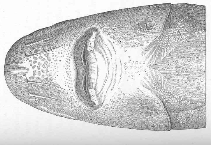 Drawing of the head of Acipenser naccarii (A. heckelii), seen from below. Note the barbels closer to the tip of the snouth then they are to mouth